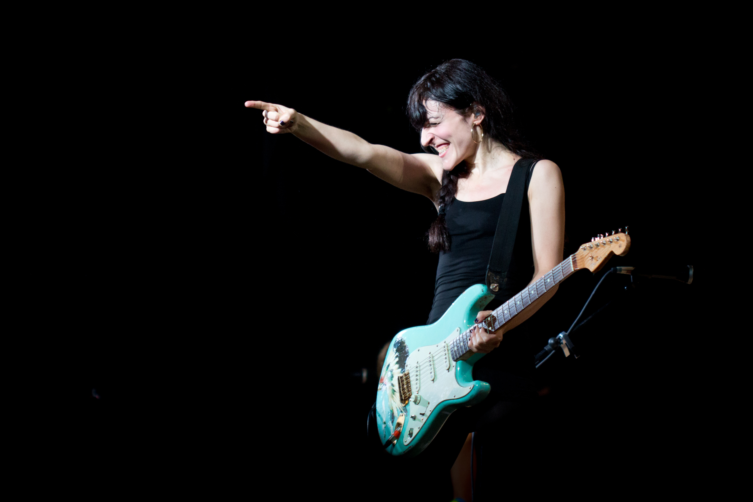 Spanish band Dover in 2014 during their Dover came to me tour.